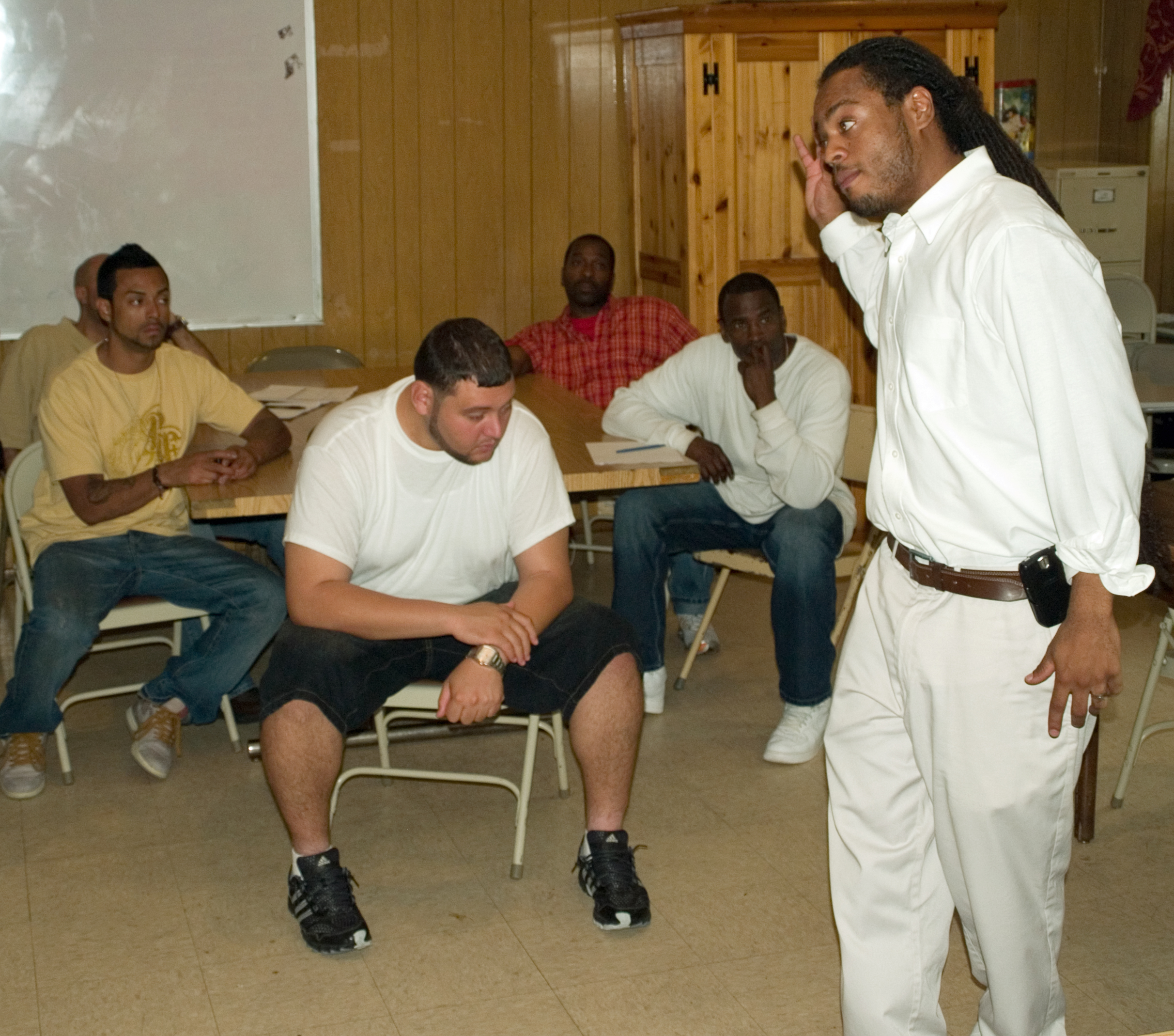 Alvin Willis, intake counselor for former prisoner rehabilitation program Exodus Transitional Community, discusses the benefits of the program to potential clients. Church of the Living Hope, East Harlem, New York City.